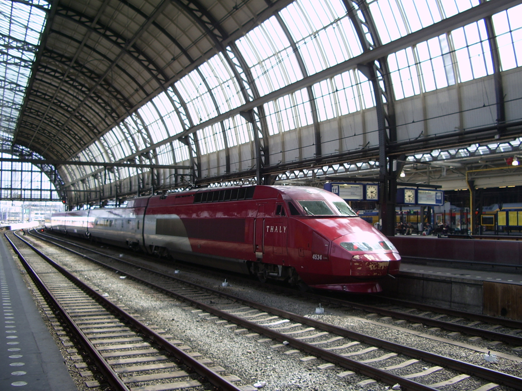 Thalys EMU at Amsterdam Centraal station, april 2006.